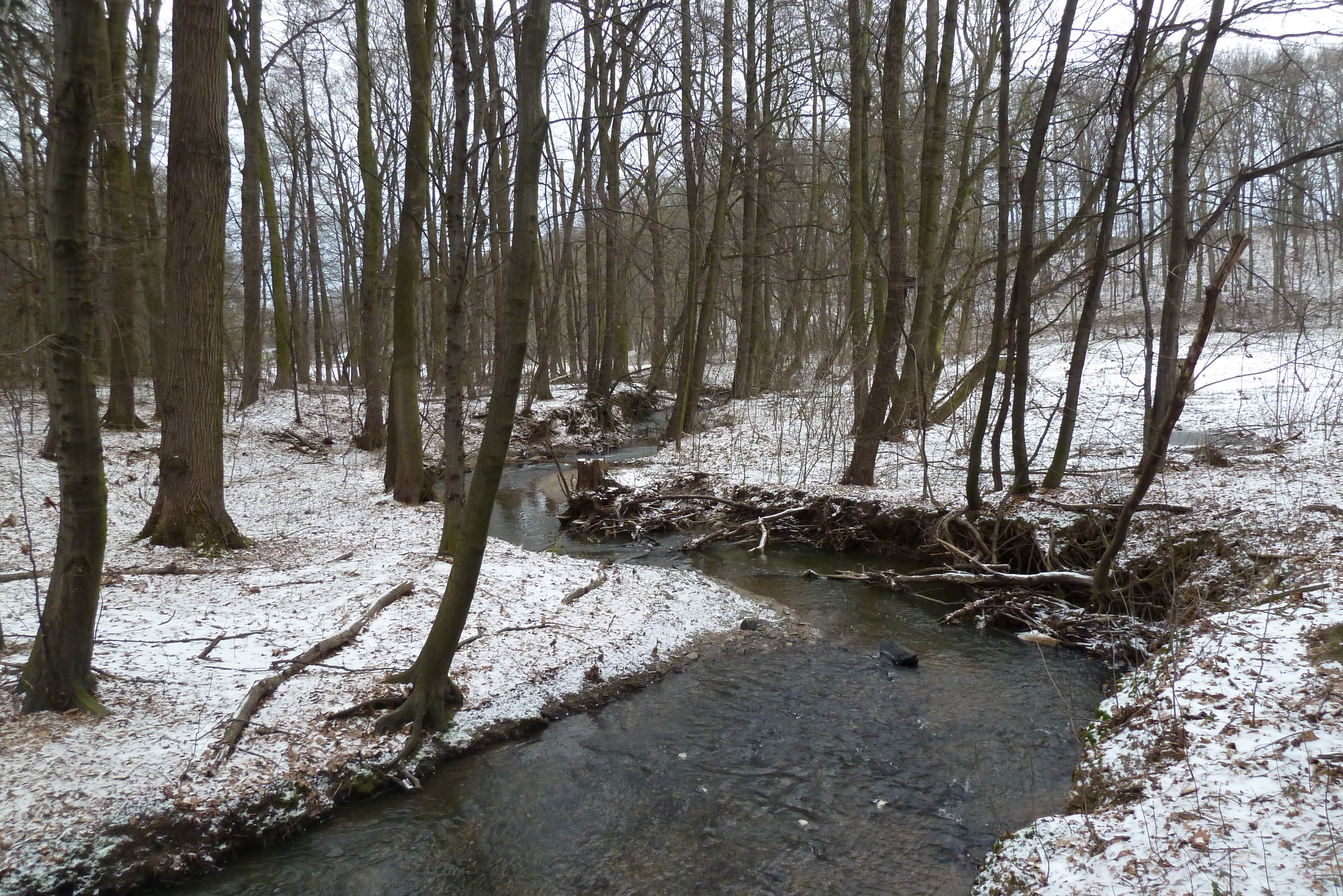 Myto - Nature reserve